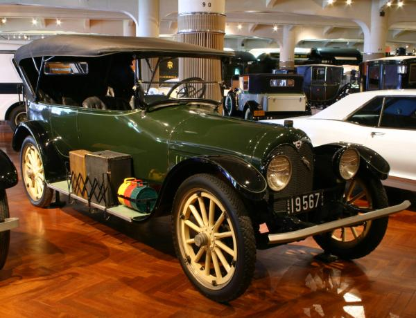 1916 Apperson "Jack Rabbit" Touring Car photographed by DougW of at The Henry Ford museum in Dearborn, MI.